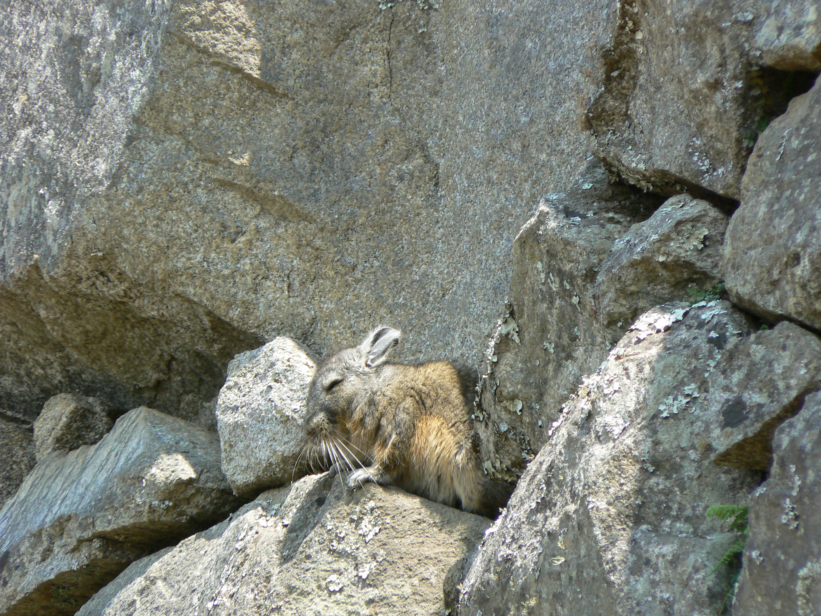 A Northern Viscacha (Lagidium peruanum) sunning itself among the ruins at Machu Pichu